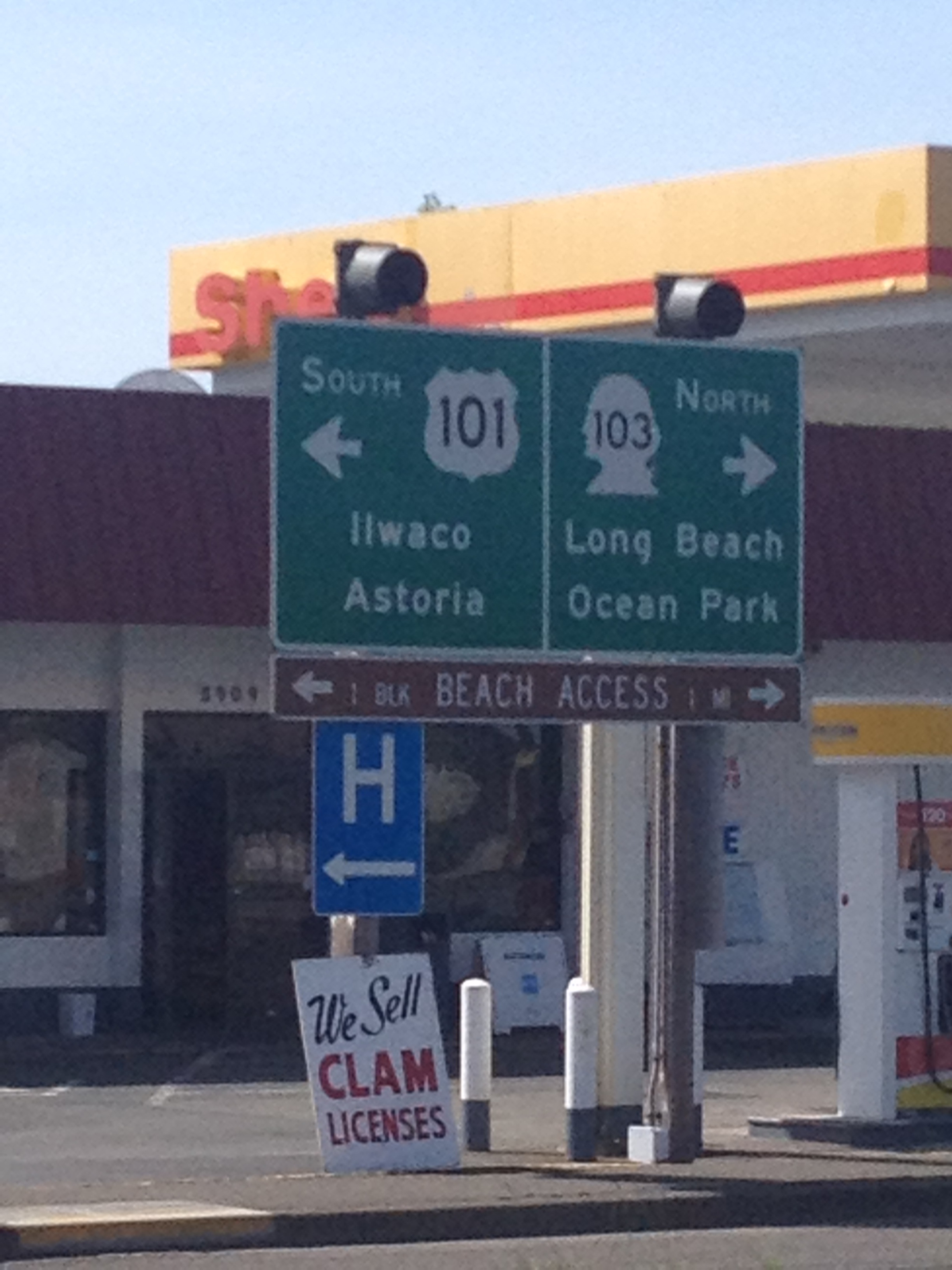 Sign for Washington State Route 103, Seaview, Washington .